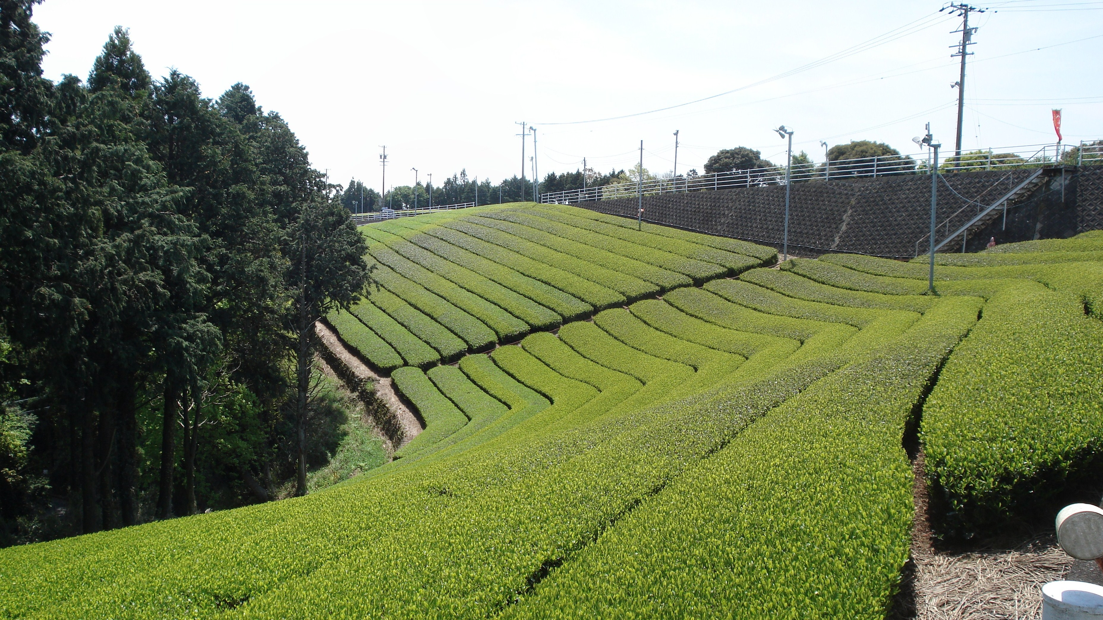 Tea Plantation (Makinohara Plateau,Shizuoka,japan)